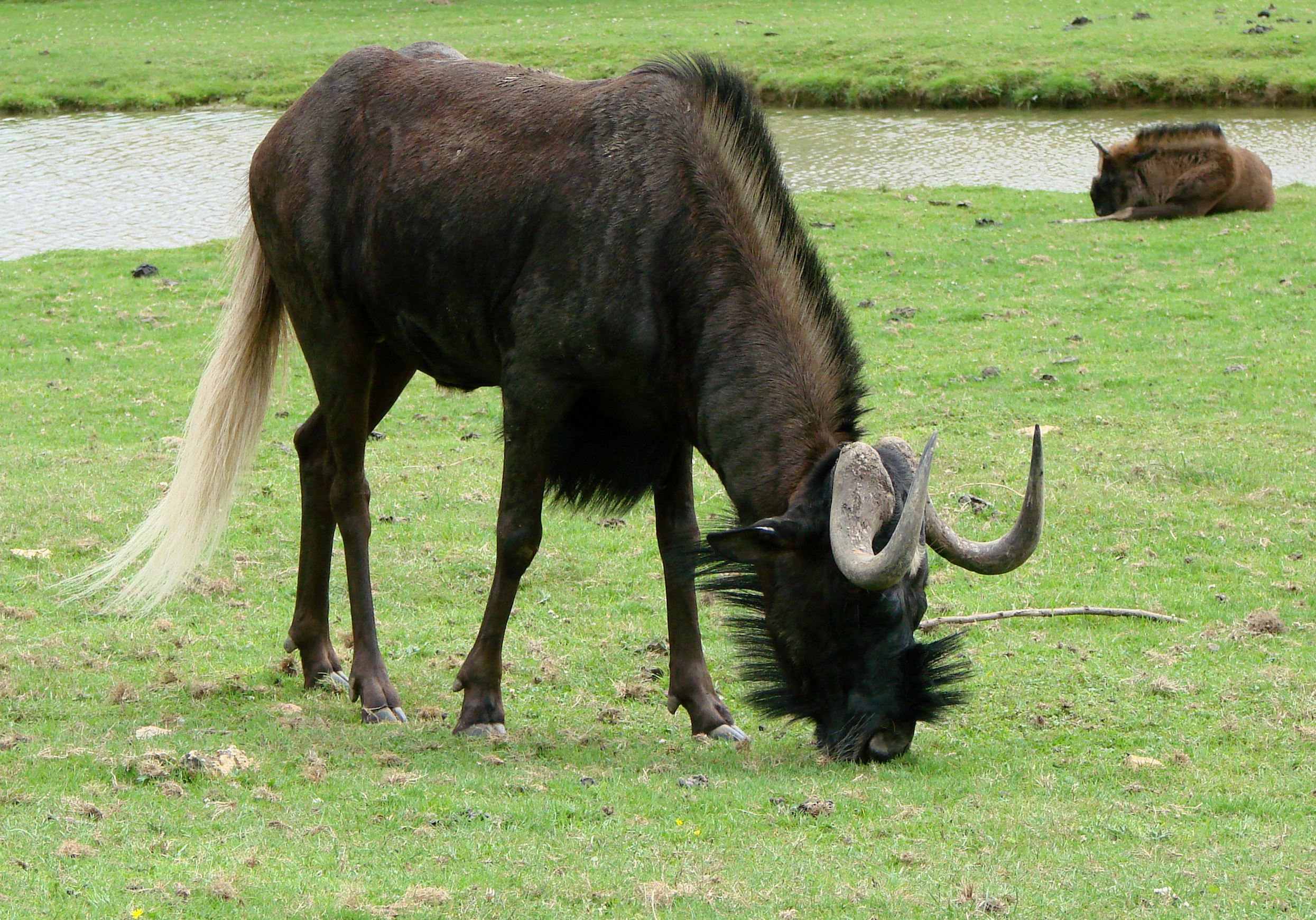 White-tailed gnu or black wildebeest (Connochaetes gnu) in Thoiry zoo.